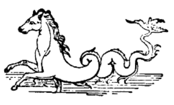 Hippocampus, After a drawing from Pompeii